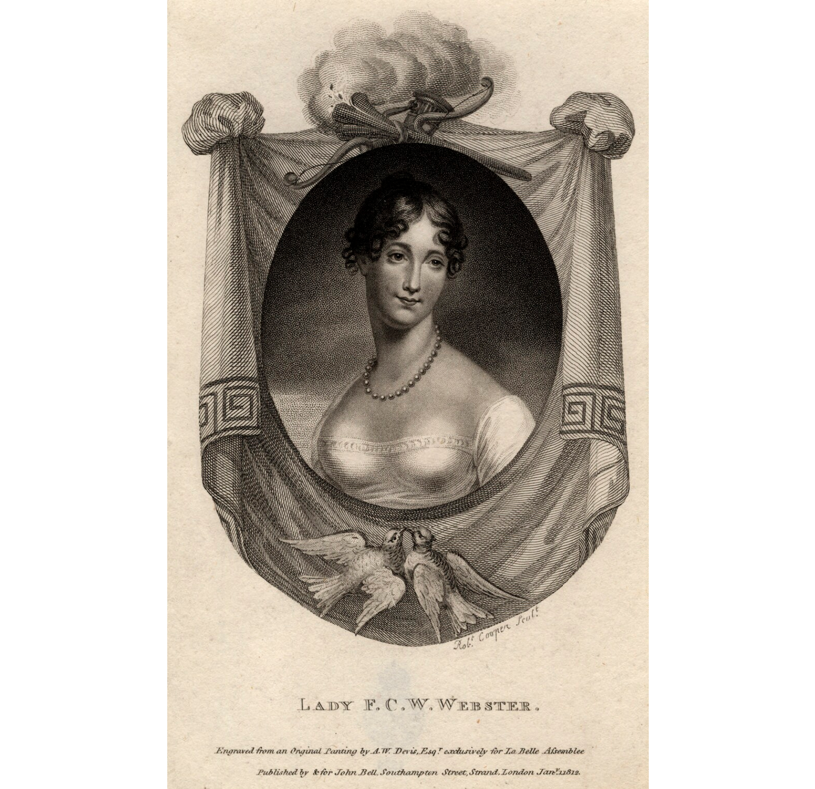 Portrait of Lady Frances Webster née Annesley, (1793–1837).